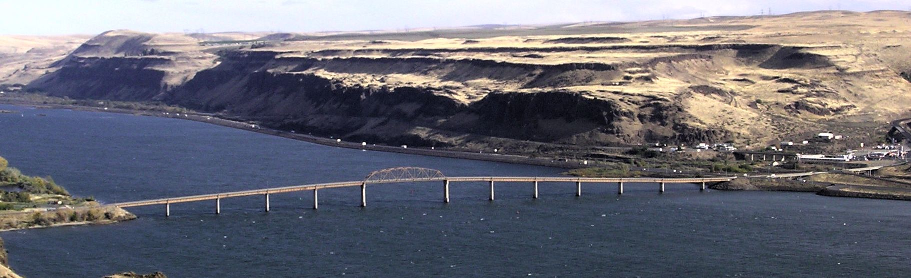 The Sam Hill Memorial Bridge seen from the northwest. Biggs Junction, Oregon is on the opposite side of the river. Taken by User:Cacophony on October 23, 2004.